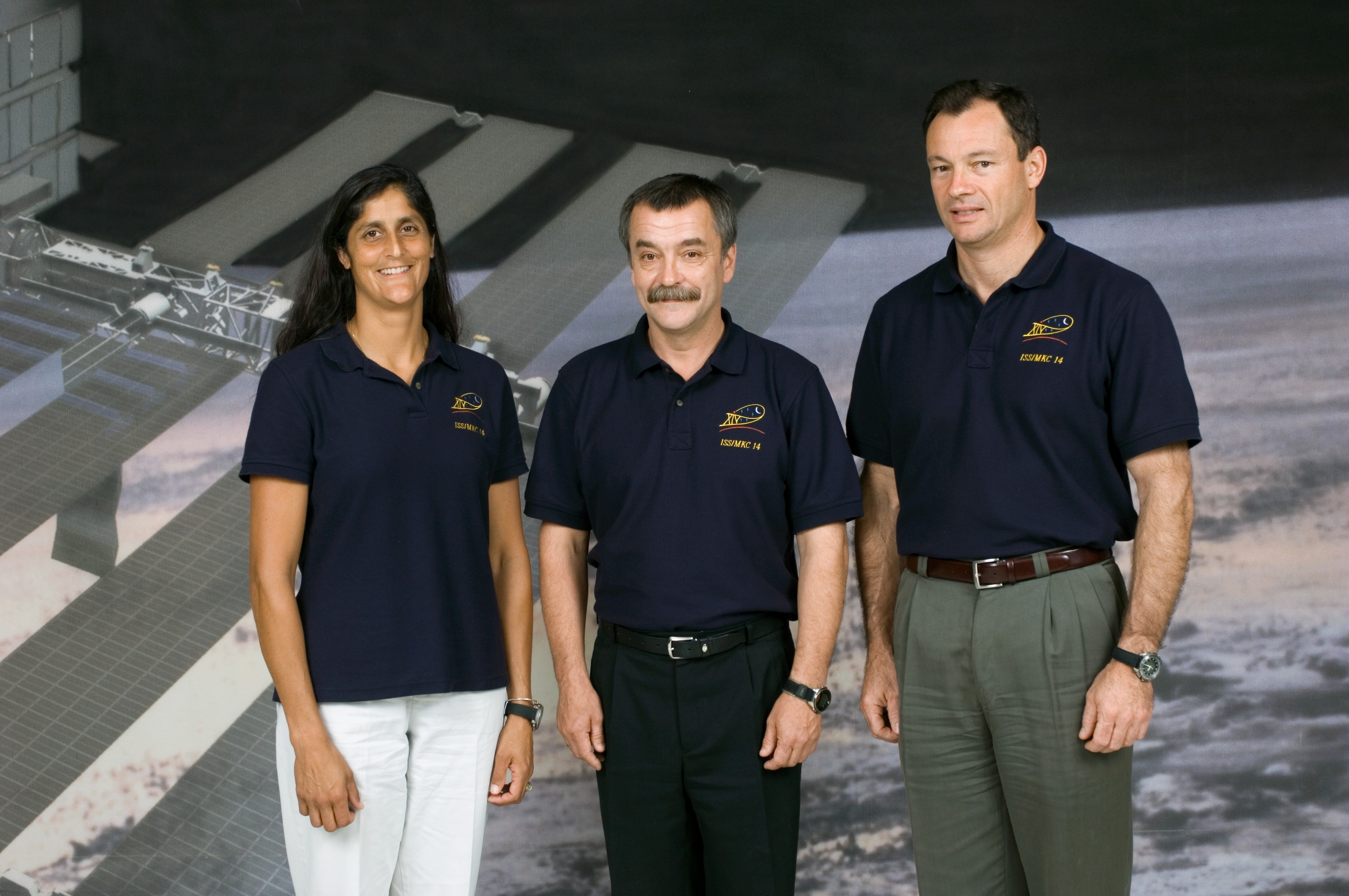 Astronaut Sunita L. Williams (left), Expedition 14 flight engineer; cosmonaut Mikhail Tyurin, flight engineer representing Russia's Federal Space Agency; and astronaut Michael E. Lopez-Alegria, commander and NASA space station science officer, pose for a photograph following their July 13 press conference at the Johnson Space Center. Lopez-Alegria and Tyurin are scheduled to launch to the International Space Station in a Soyuz spacecraft in mid-September and Williams will join Expedition 14 in progress and serve as a flight engineer after traveling to the station on space shuttle mission STS-116 in December.